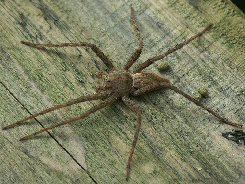 Dolomedes sp.